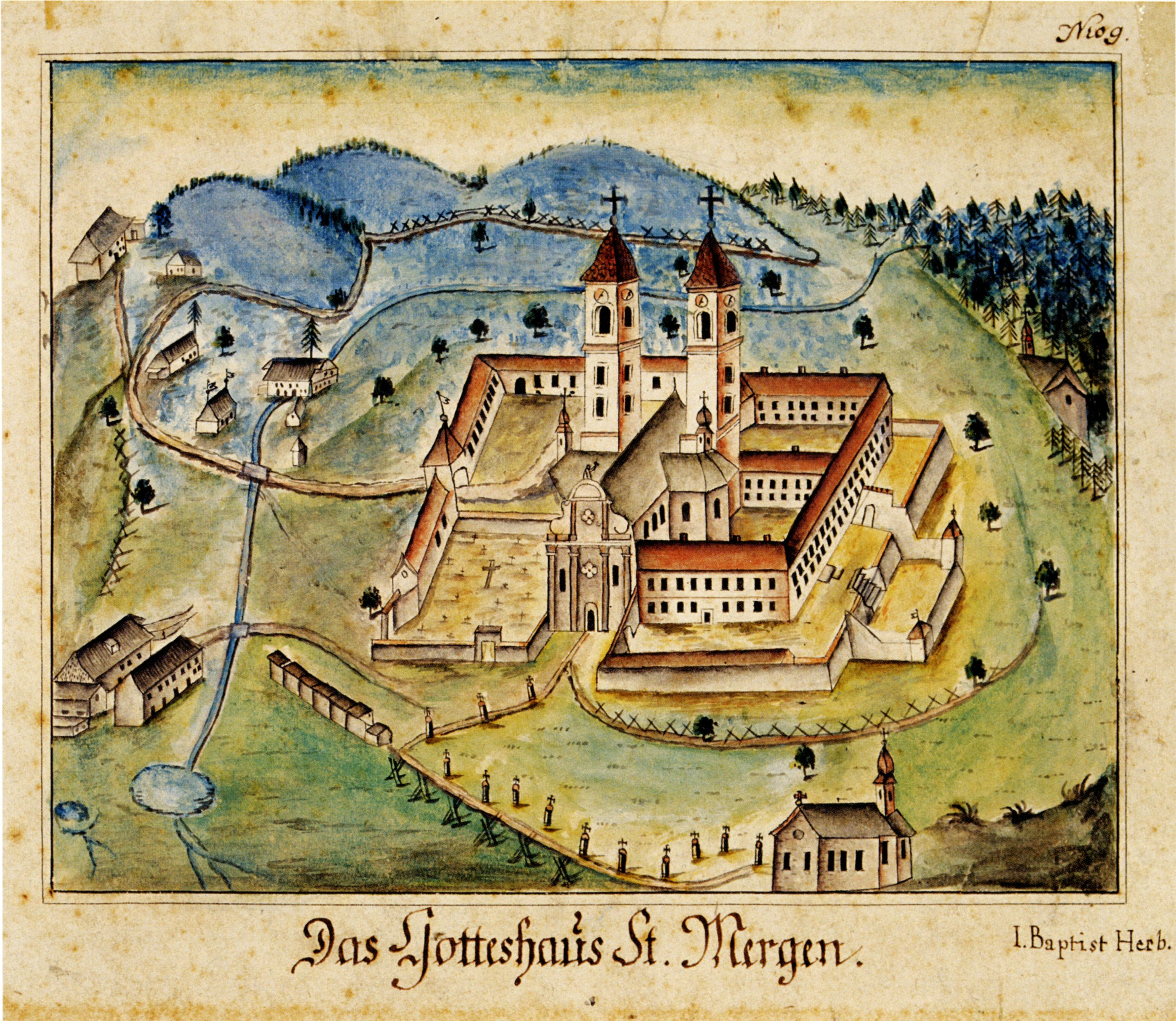 Colouered drawing showing monastery of St. Märgen, Germany, around 1790